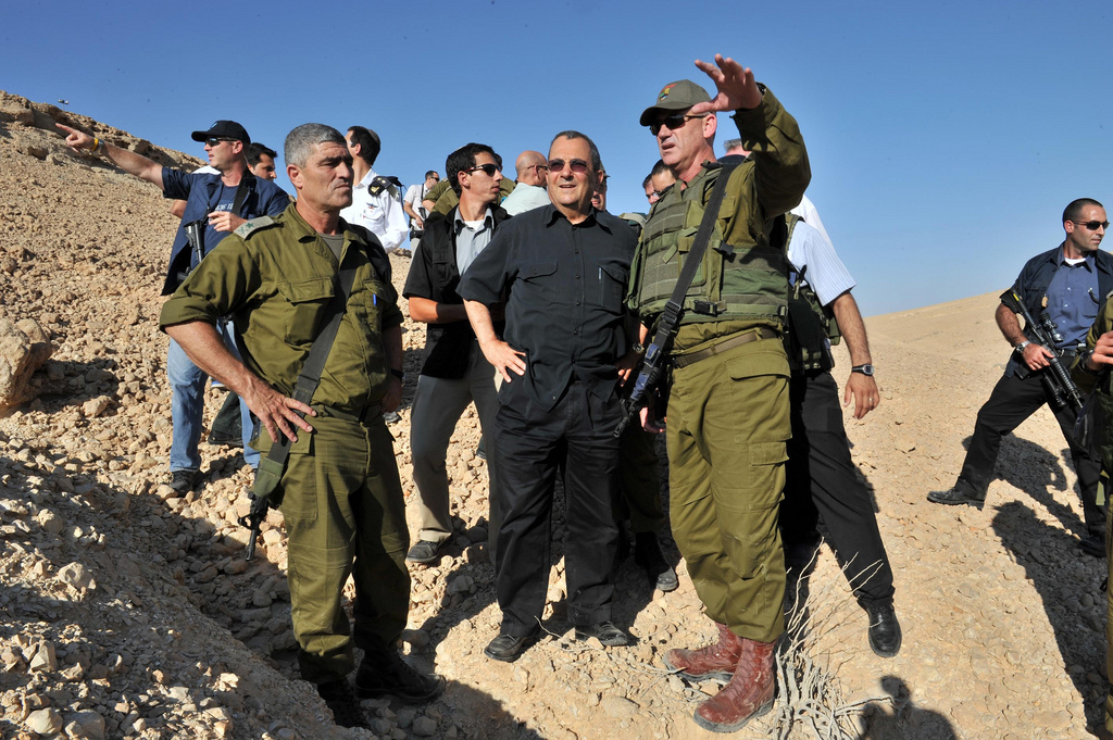 August 18, 2011 Today, 7 people were killed, and about 40 were injured in a multi-prong terror attack targeting Israeli civilians. The malicious attack targeted Israeli civilians, who were on their way to Eilat, a popular tourist destination for summer vacations. Photos by: Ariel Hermoni